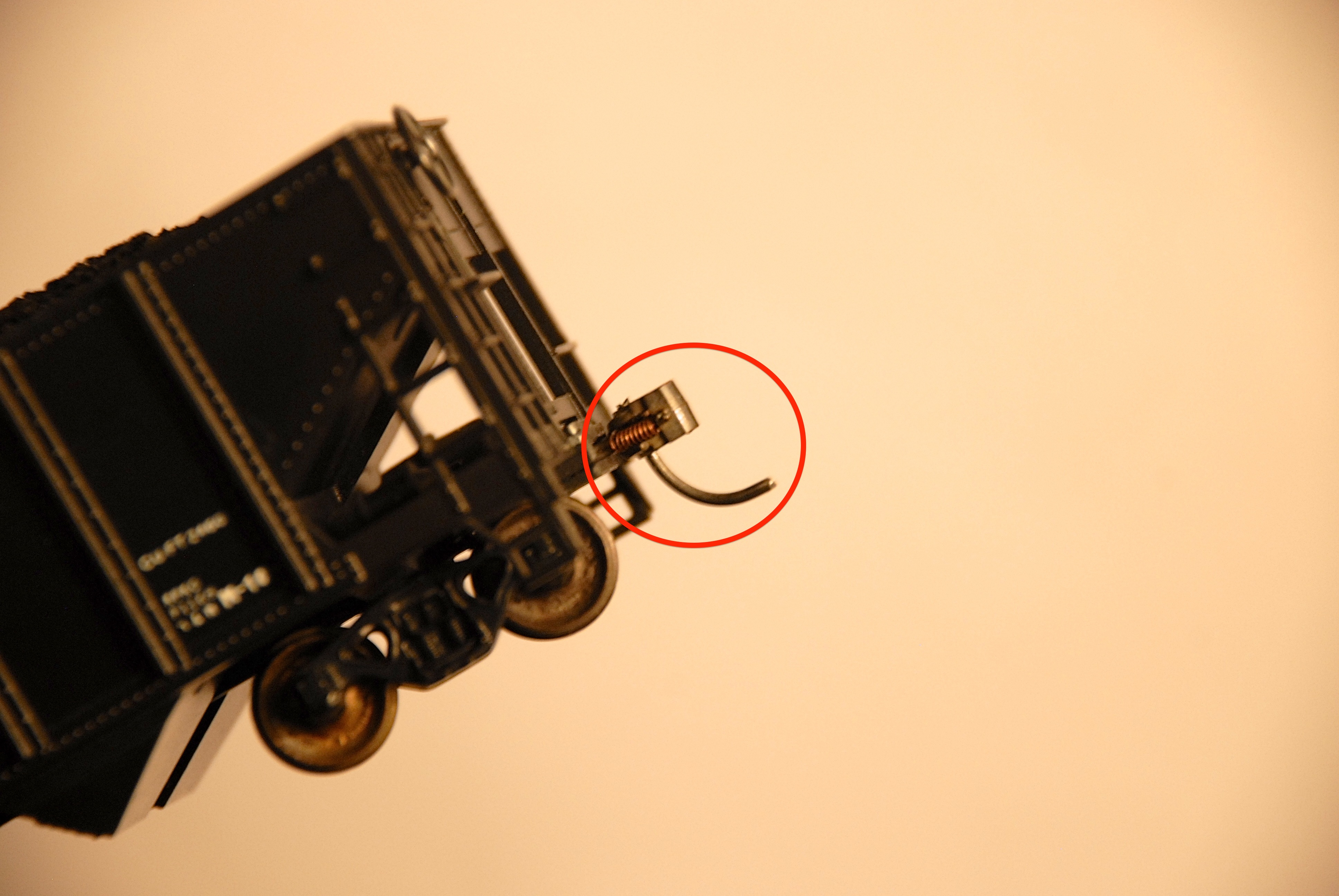 Kadee coupler, HO scale.